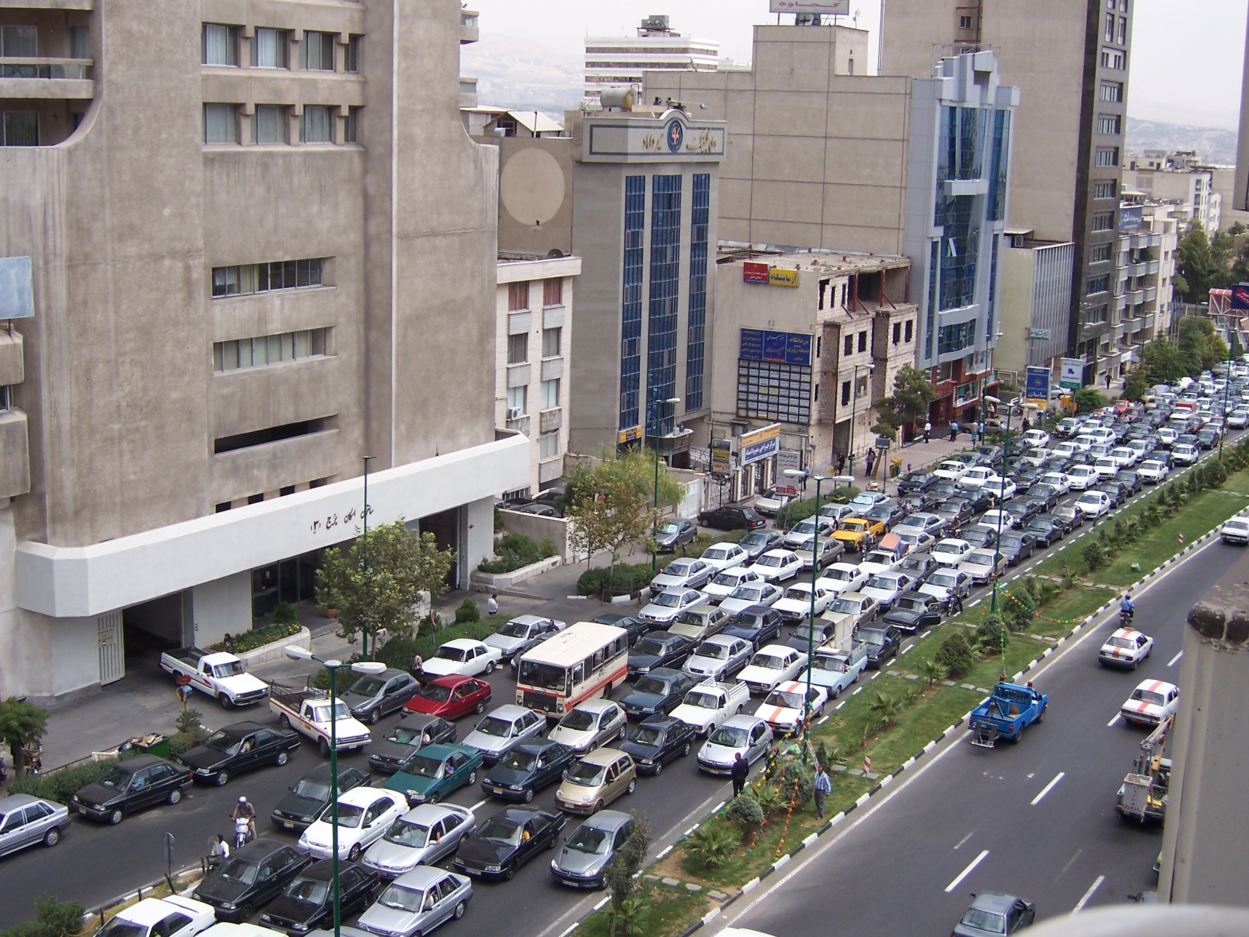 Trafic in Tehran, juncture of Mirdamad and Valiasr streets.